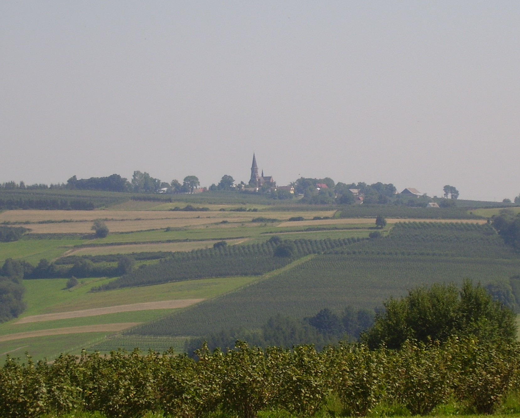 Village Góra św. Jana - view from Szczyrzyc